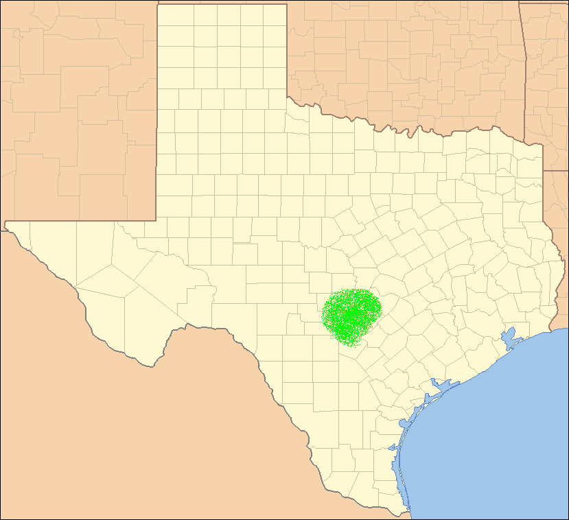 Approximate Locator Map of Texas Hill Country, United States.